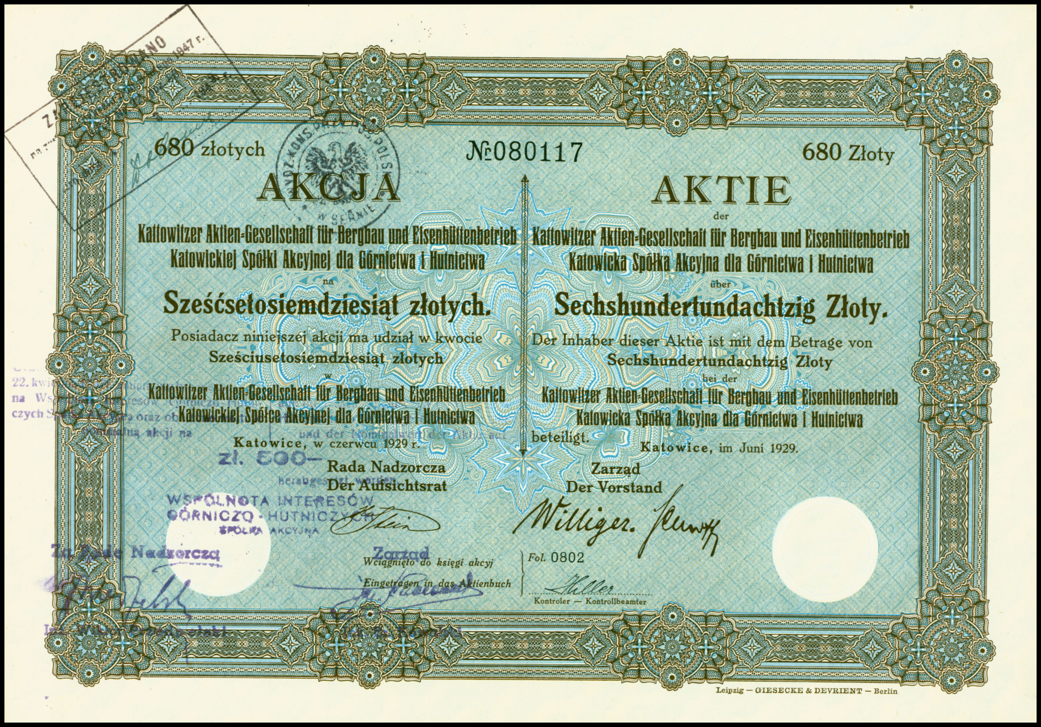 Share of the Kattowitzer AG für Bergbau und Eisenhüttenbetrieb, issued June 1929